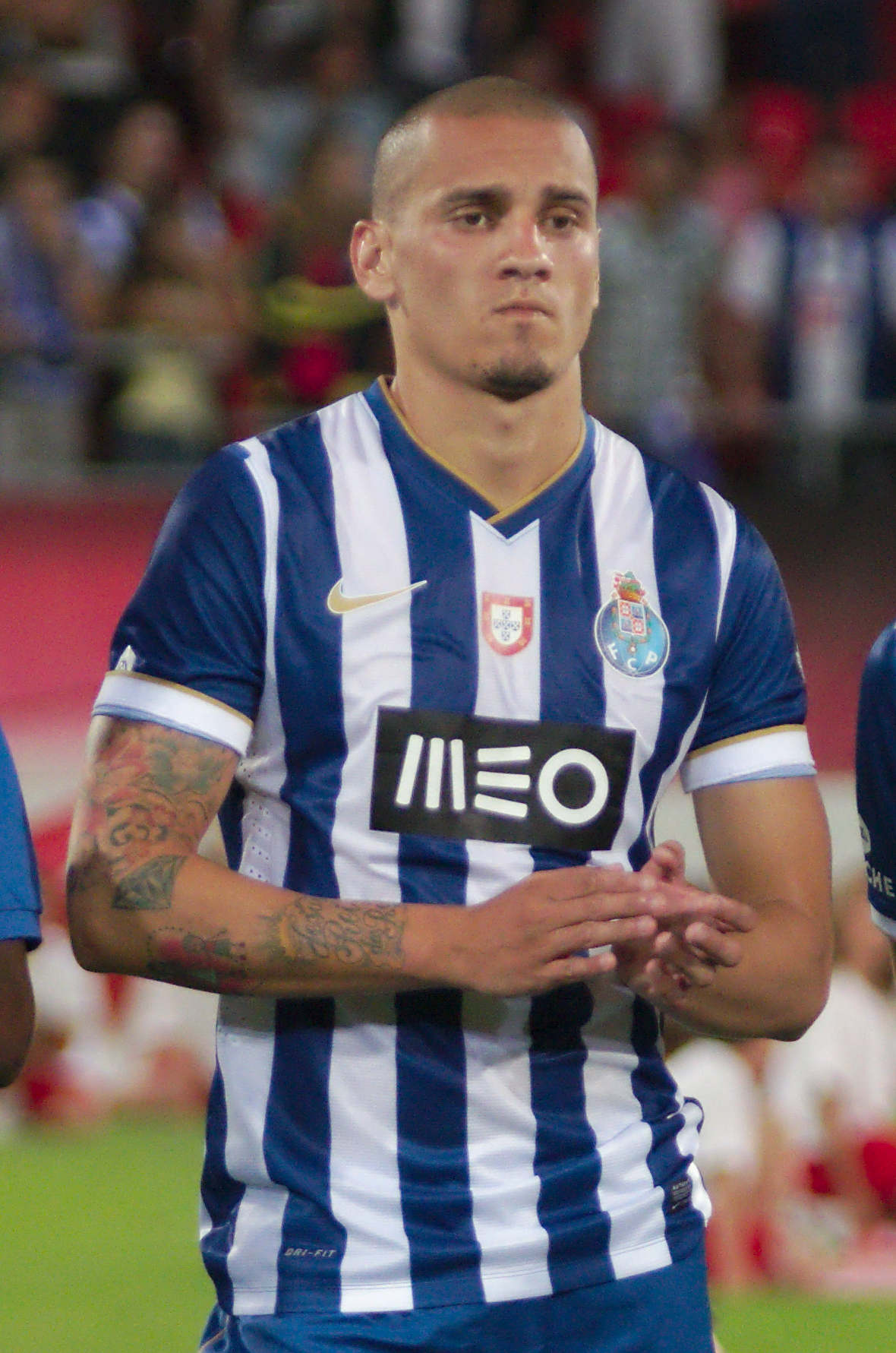 Valais Cup 2013 - OM-FC Porto - 20130713 - Kelvin, Maicon et Herrera